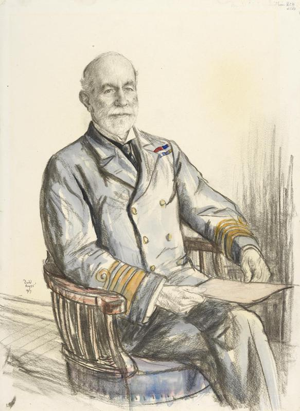 Admiral Sir Frederick Tower Hamilton Kcb Cvo image: a three quarter length portrait of the bearded Admiral Sir Frederick Hamilton in Royal Navy uniform and sitting on a chair holding some papers just above his lap.